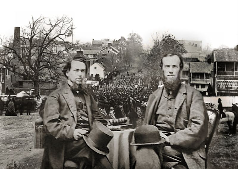 Isaac & Charles Tyson, derivative from original albumen silver prints This is a retouched picture, which means that it has been digitally altered from its original version. Modifications: derivative work. Modifications made by Santoaz2006.